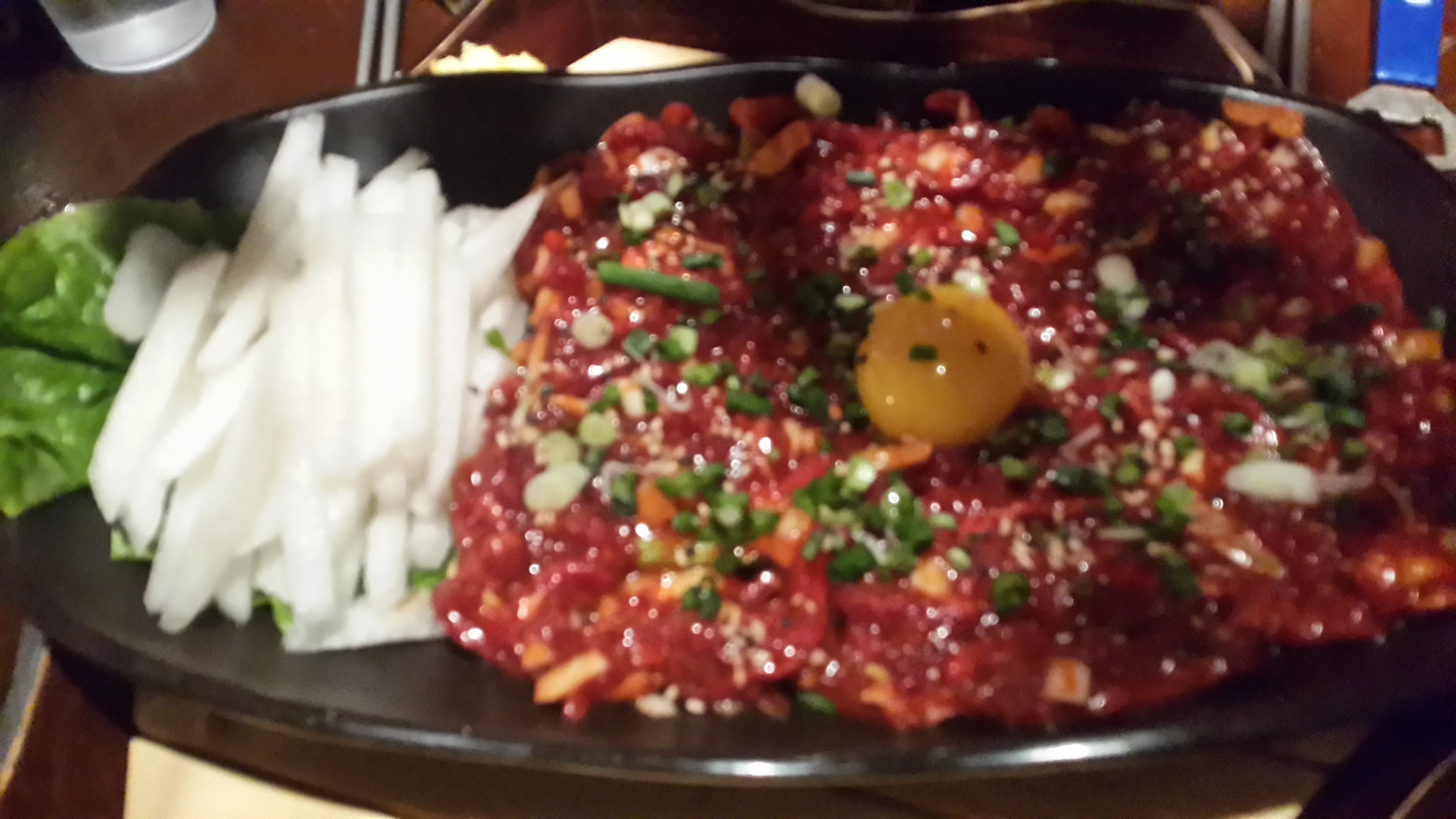 Yuk hoe, once Korean royal cuisine made with raw marinated beef and seasonings.